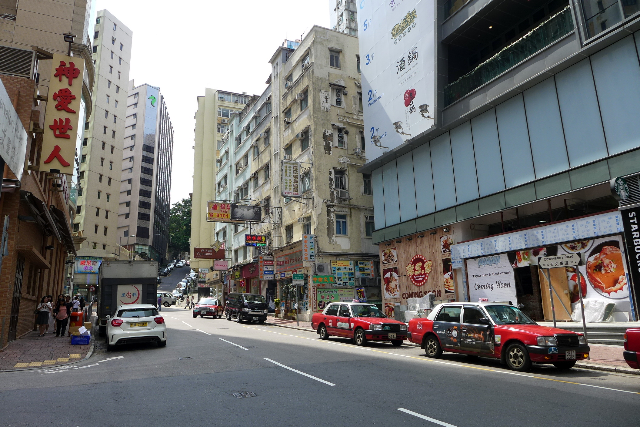 Observatory Road